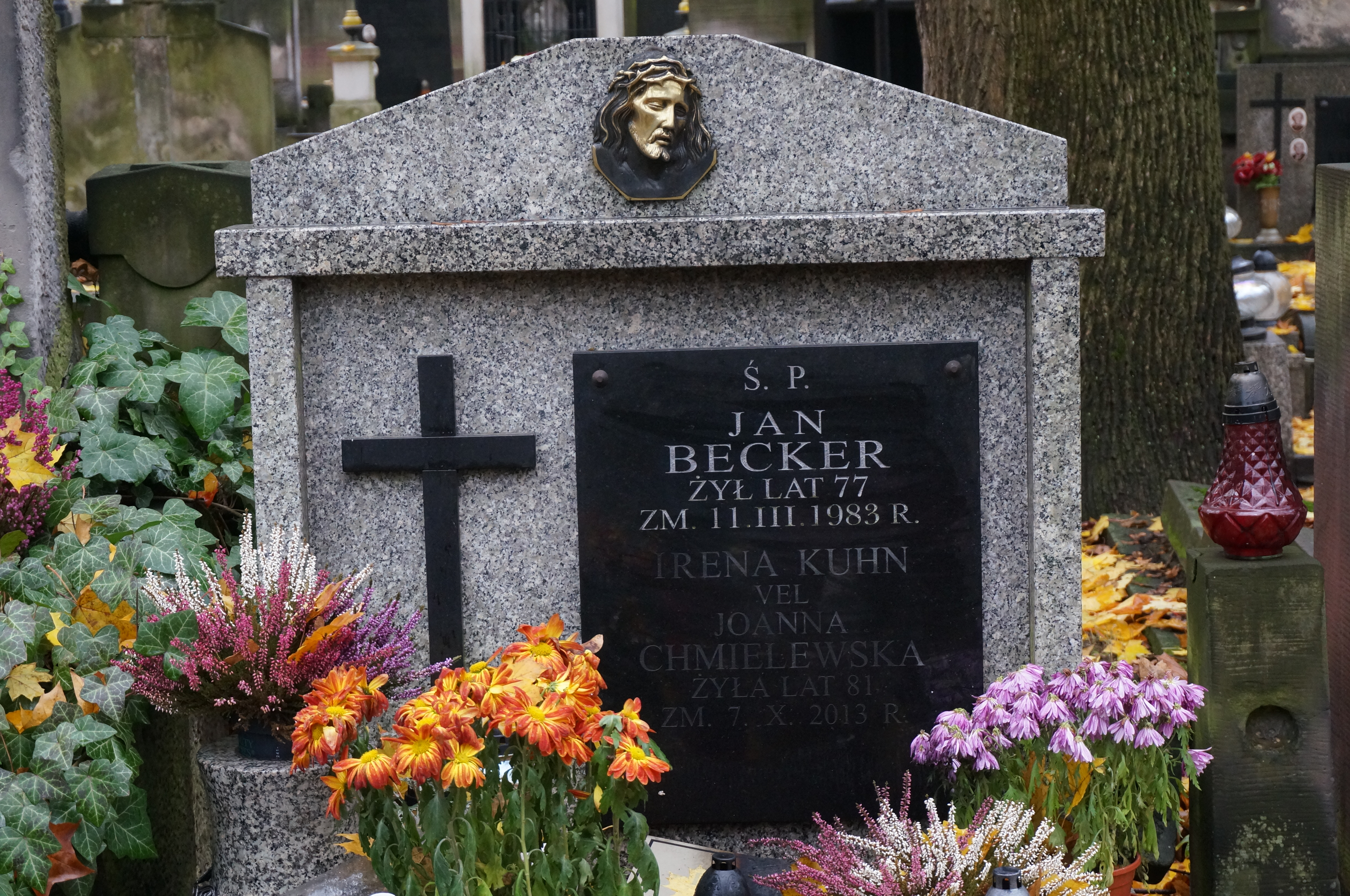 The grave of Irena Kuhn aka Joanna Chmielewska at the Powązki Cemetery (section H, row 5, grave 20)